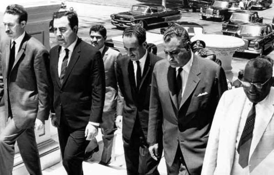 Original description from the mentioned syrian website: Arab leaders assembled in Cairo in 1968. From left to right: President Houari Boumédiène of Algeria, President Nur al-Din al-Atasi of Syria, President Abd al-Rahman Aref of Iraq, and President Gamal Abd al-Nasser of Egypt. But: The fifth person (most right) is President Ismail al-Azhari of Sudan.